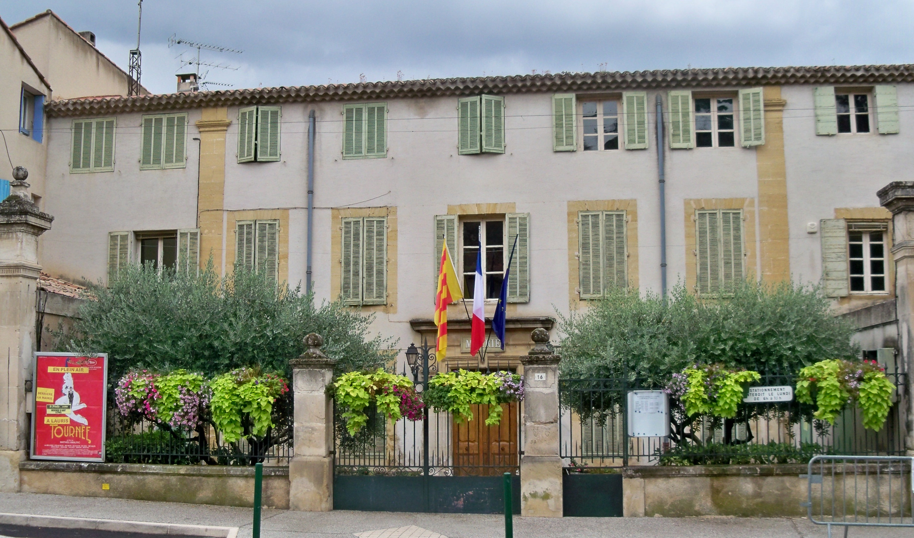 Town hall of Cadenet, Vaucluse, France